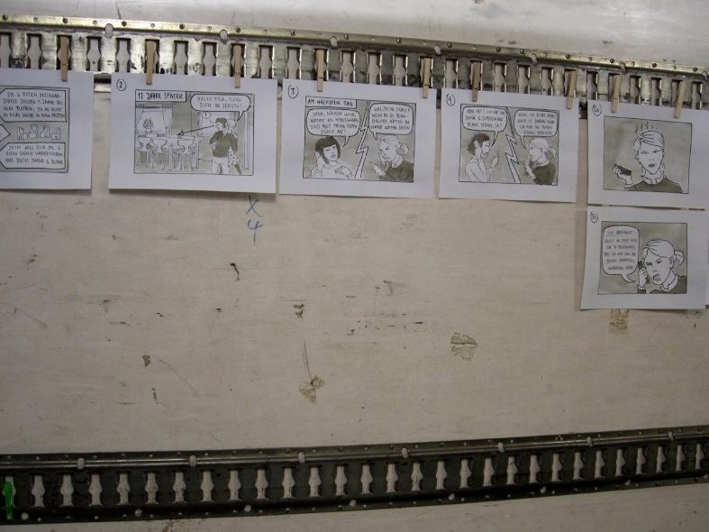 Dialogannahme – Storyboard